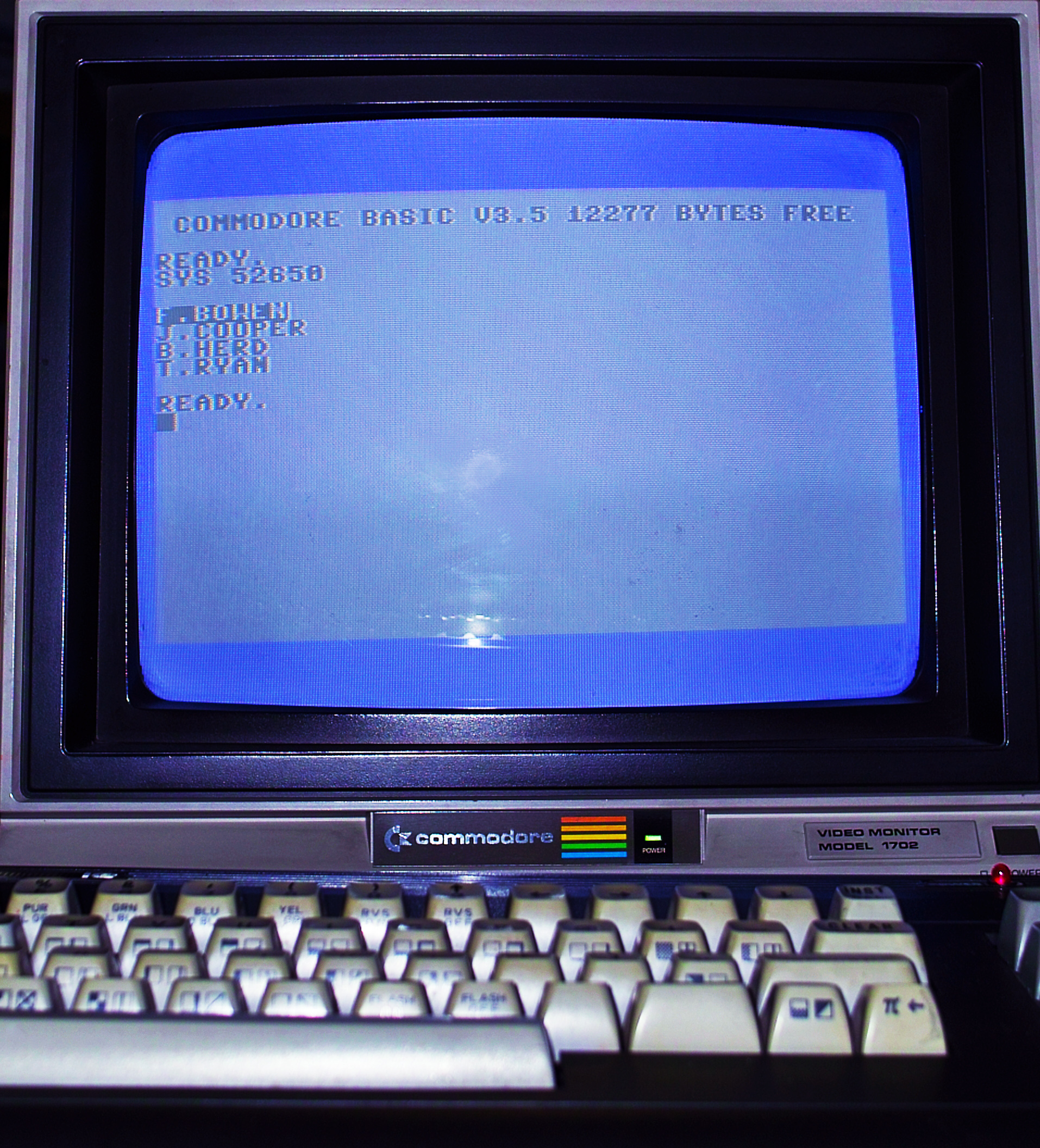 Commodore 16 startup screen and "easter egg": SYS 52650 displays the names of the developers F. Bowen, J. Cooper, B. Herd, T. Ryan. Using a Commodore monitor model 1702.